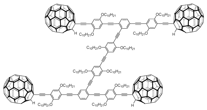 Chemical structure of a nanocar. The wheels are C60 fullerene. Shirai, Y. et al. (2005). "Directional Control in Thermally Driven Single-Molecule Nanocars". Nano Lett. 5: 2330. PMID 16277478.